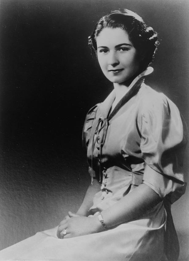 Photographic portrait of Queen Farida of Egypt.